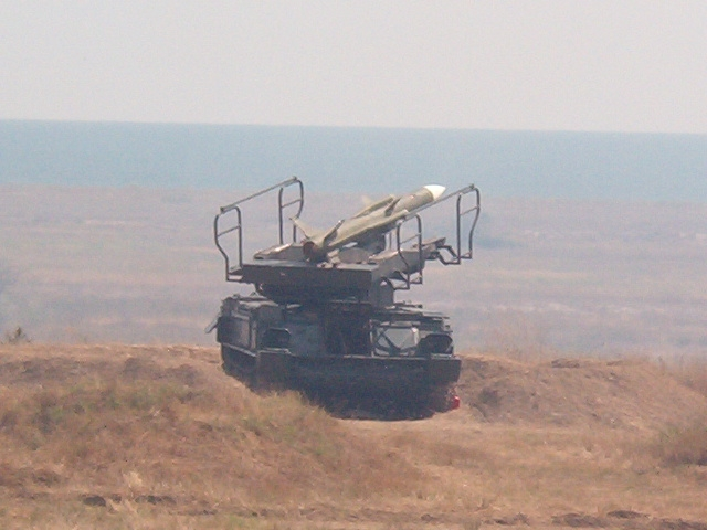 Romanian 2K12 Kub (NATO designation: SA-6 Gainful) at a military exercise in 2006.